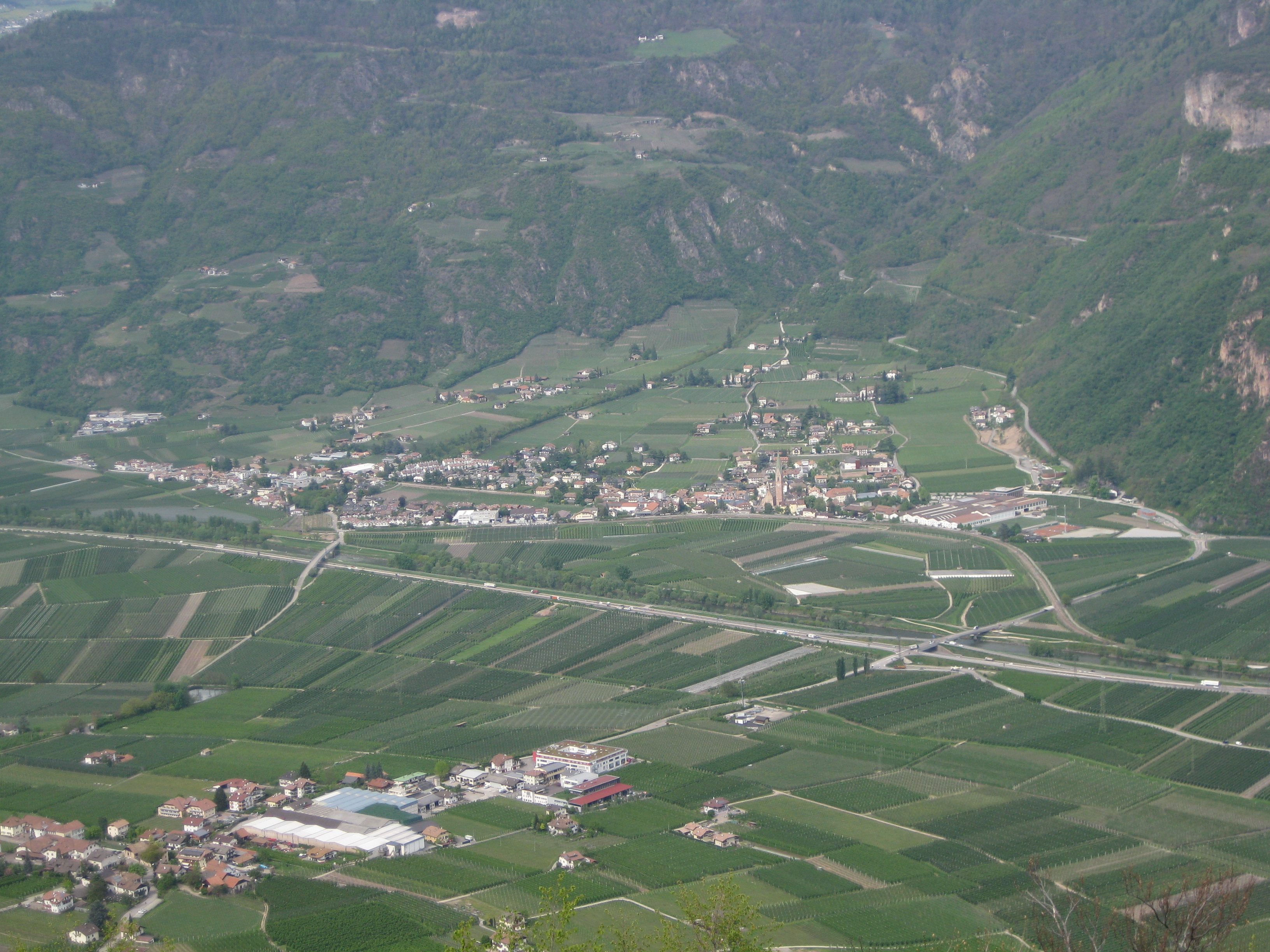 Terlan as seen from Perdonig